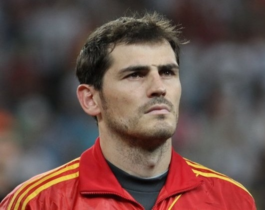 Iker Casillas at Euro 2012 match Spain-France